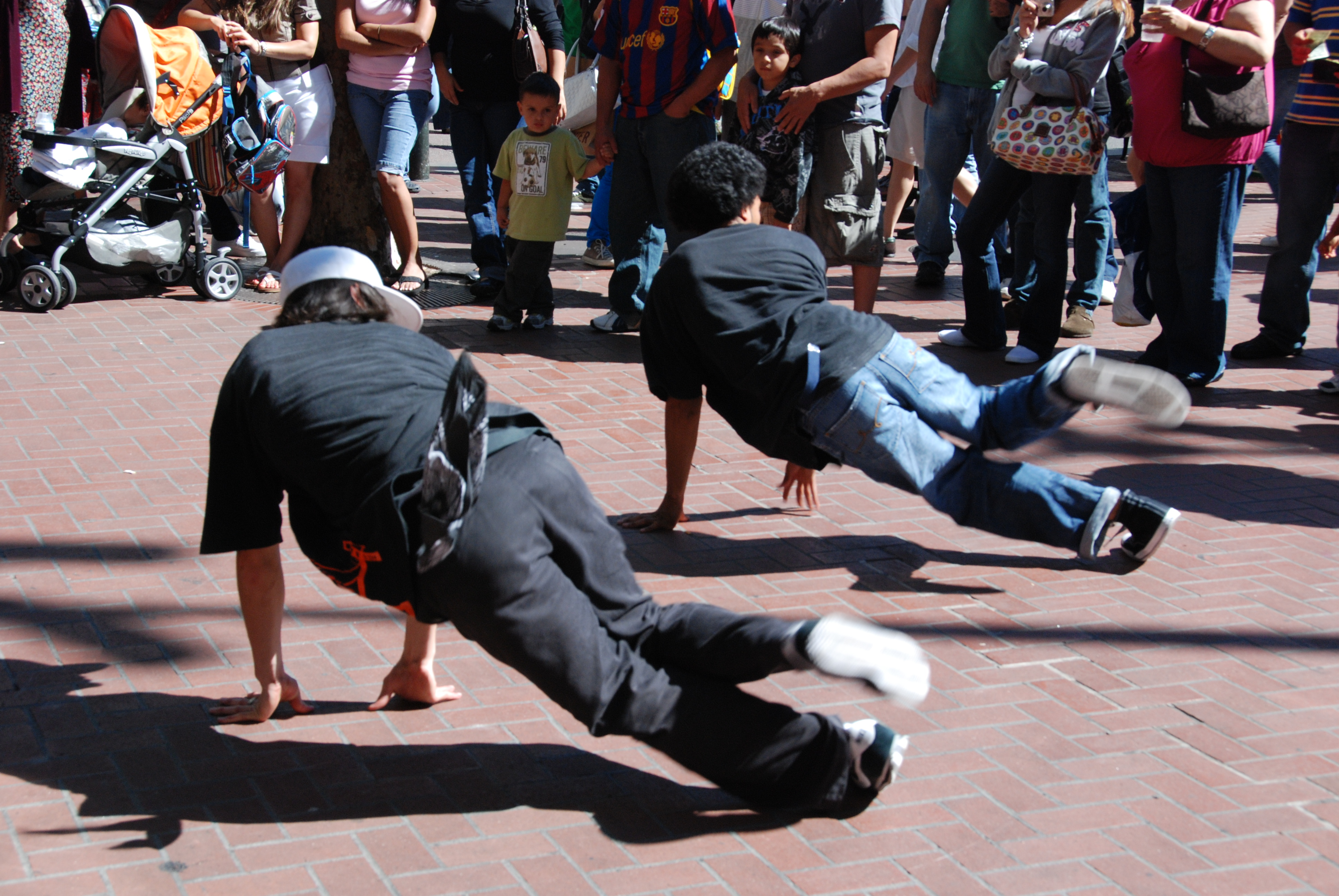 Break dancers perform at San Francisco's Powell Street - Vilay Sinsiam